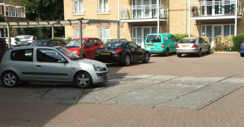 Tramlines preserved in the parking area of the Coach Yard residential development in Barming. This used to be the main depot yard of Maidstone Corporation Tramways. Photograph taken by Clankypup on 6 Sep 2009.